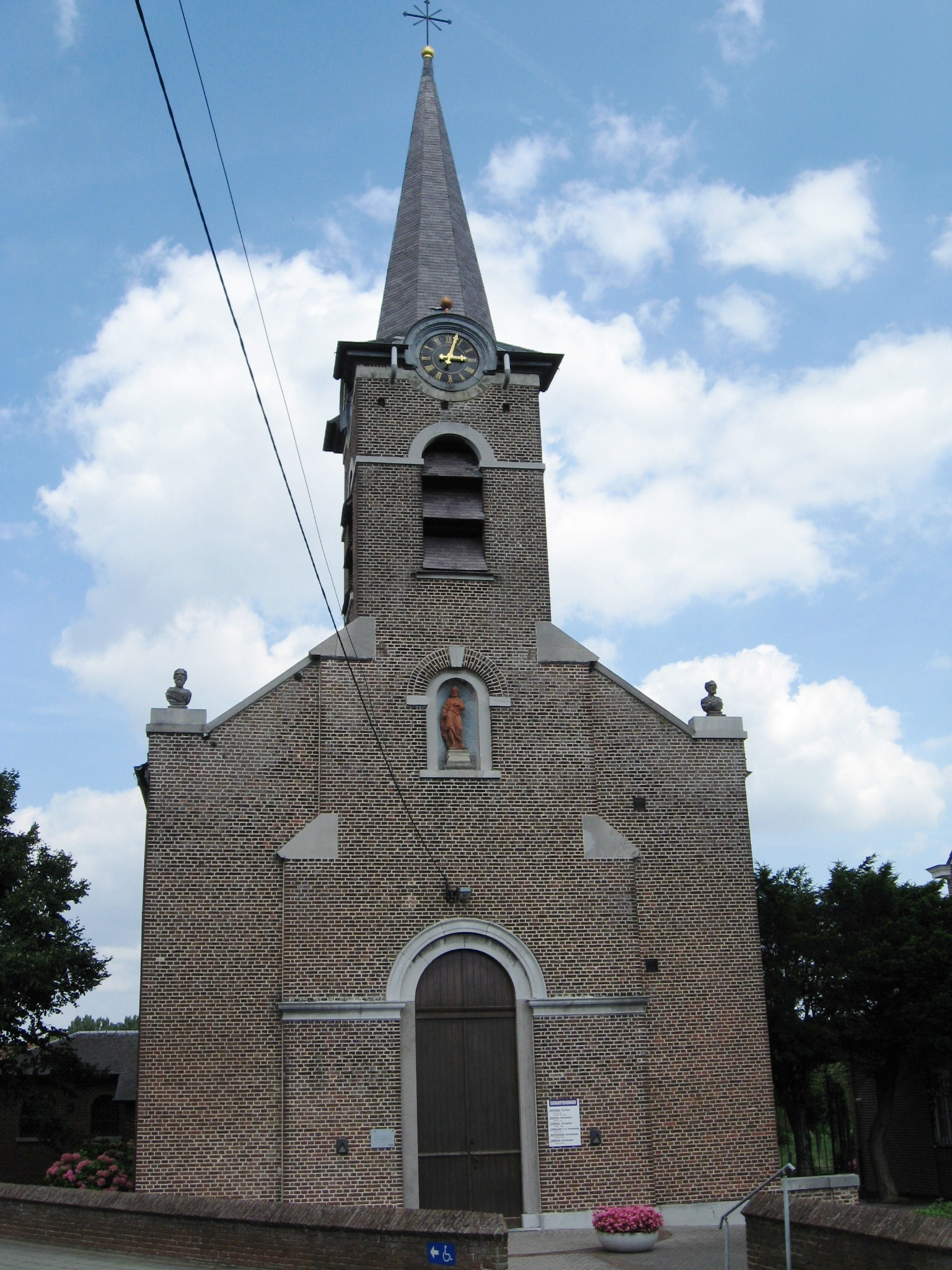 Church of Saint Quentin in Guigoven, Kortessem, Limburg, Belgium